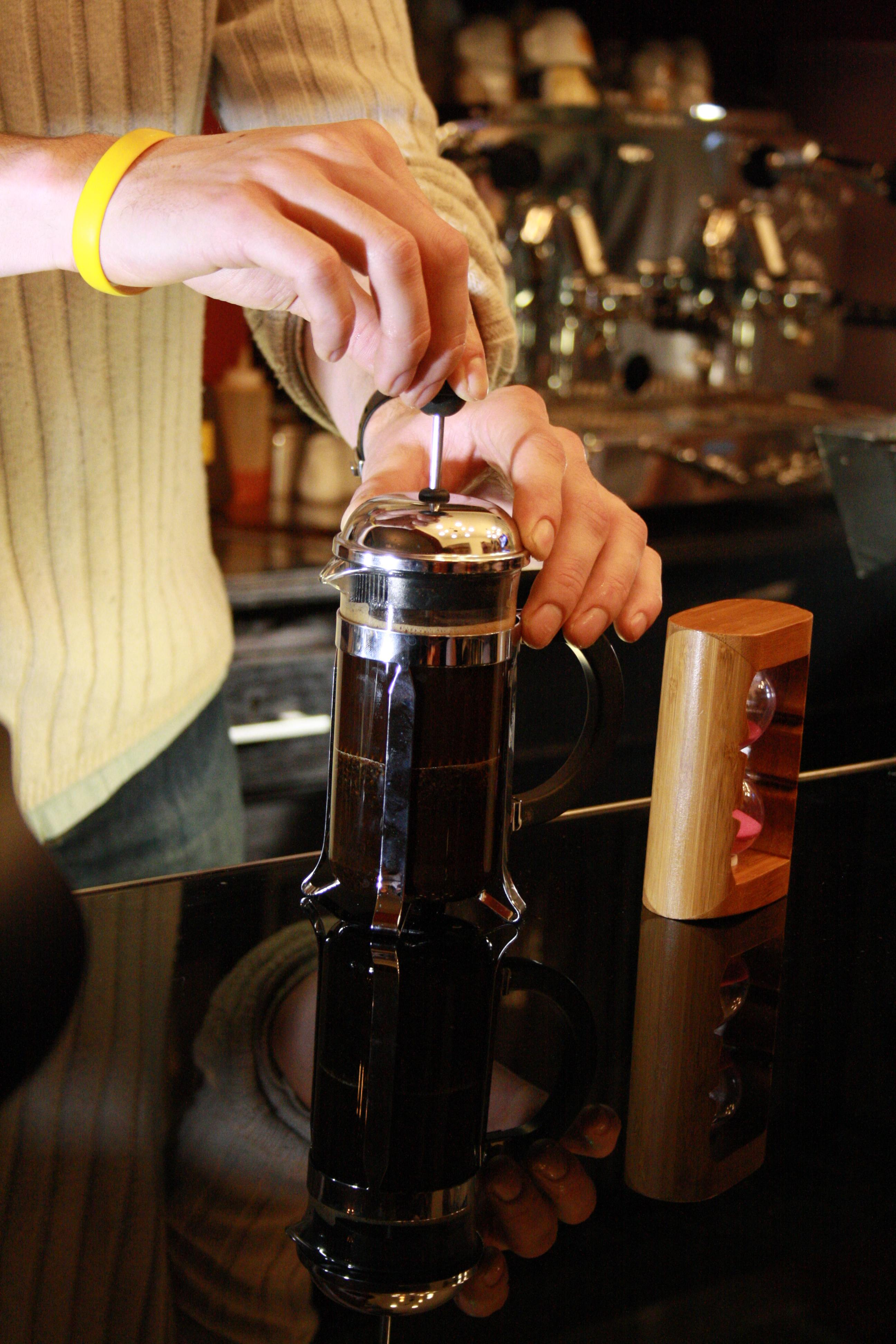 French press cafetiere with coffee on Coffee Right in Brno, Czech Republic. Barista name is Jarda Tuček.